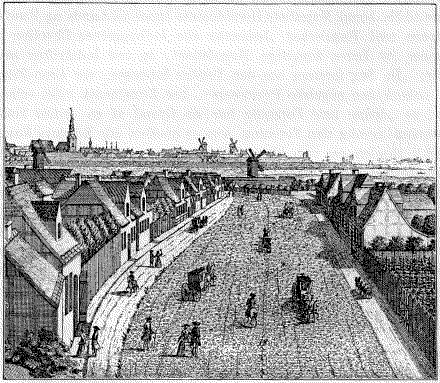 Vesterbrogade /then) outside Copenhagen, Denmark